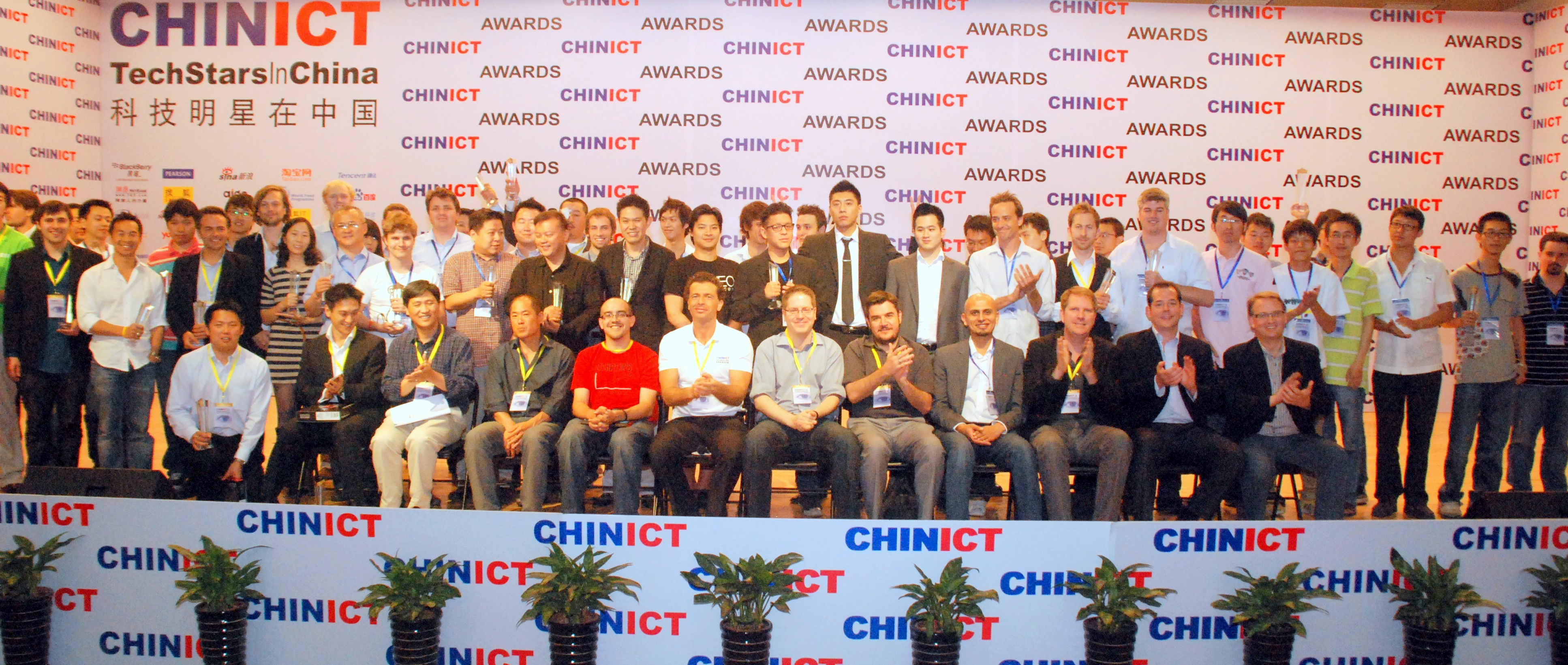 CHINICT 2012 Award Winners Rising Stars, Hackathon & Protégé